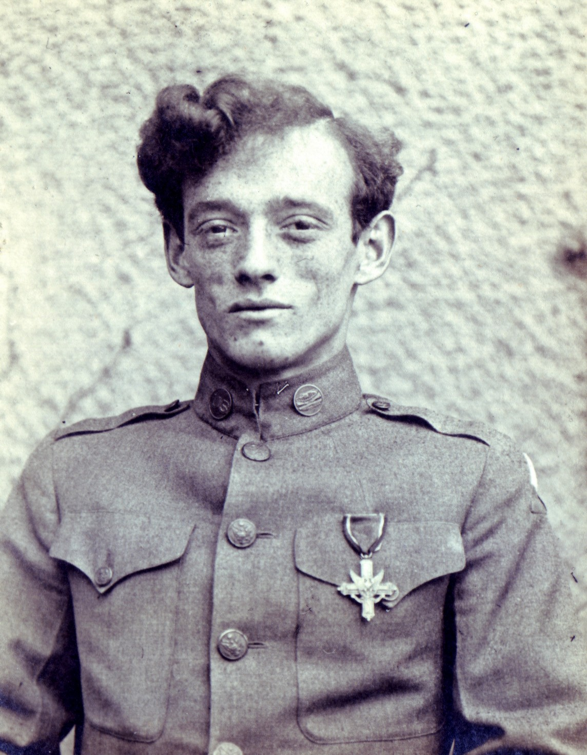 This photograph was taken at the time Angelo received the Distinguished Service Cross for saving the life of George Patton (photo identifier 120-AC-32).